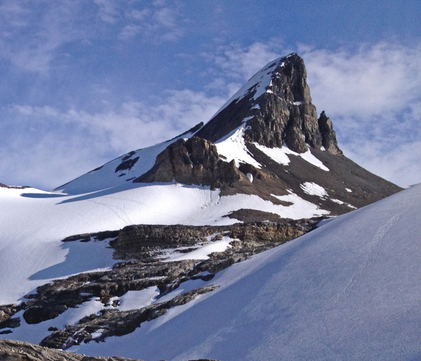 Mountain in Canada Rockies along Icefields Parkway